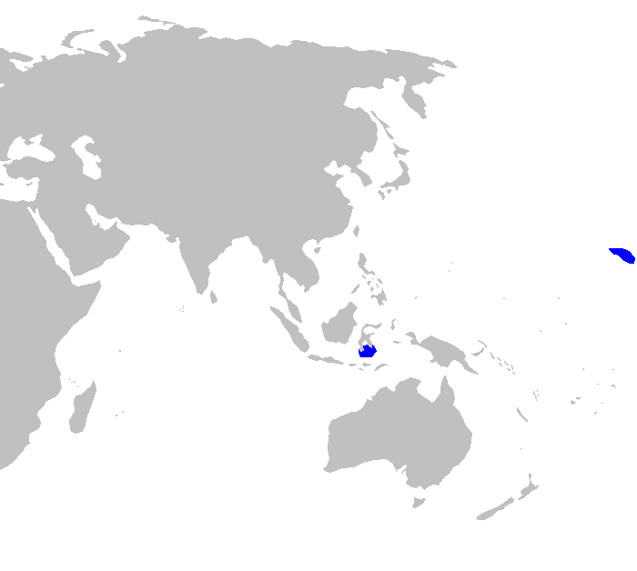 Distribution map for Apristurus spongiceps